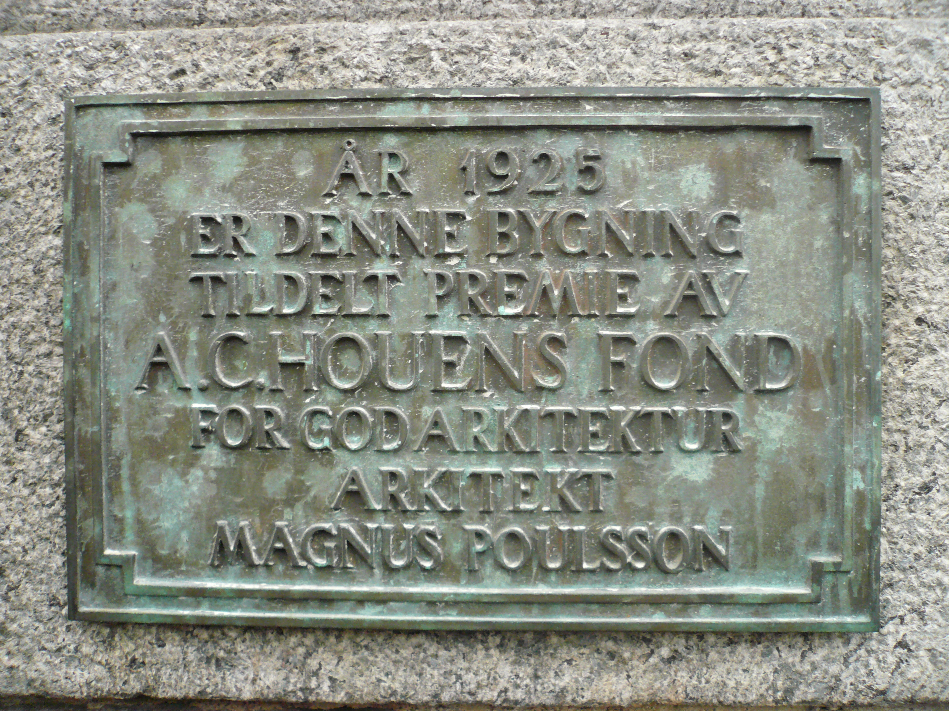 Houens fonds premie. Plaque in bronze.